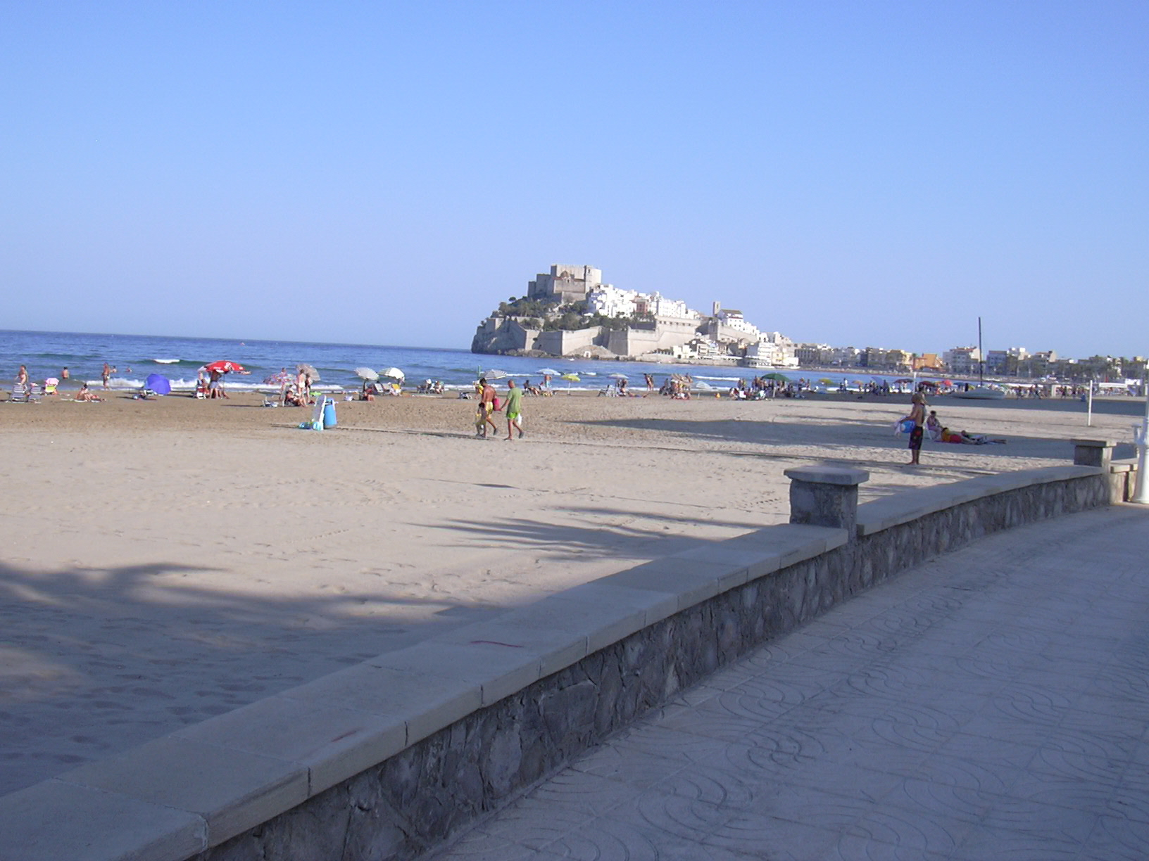 Peñíscola's beach in the Spanish province of Castellón/Castelló.